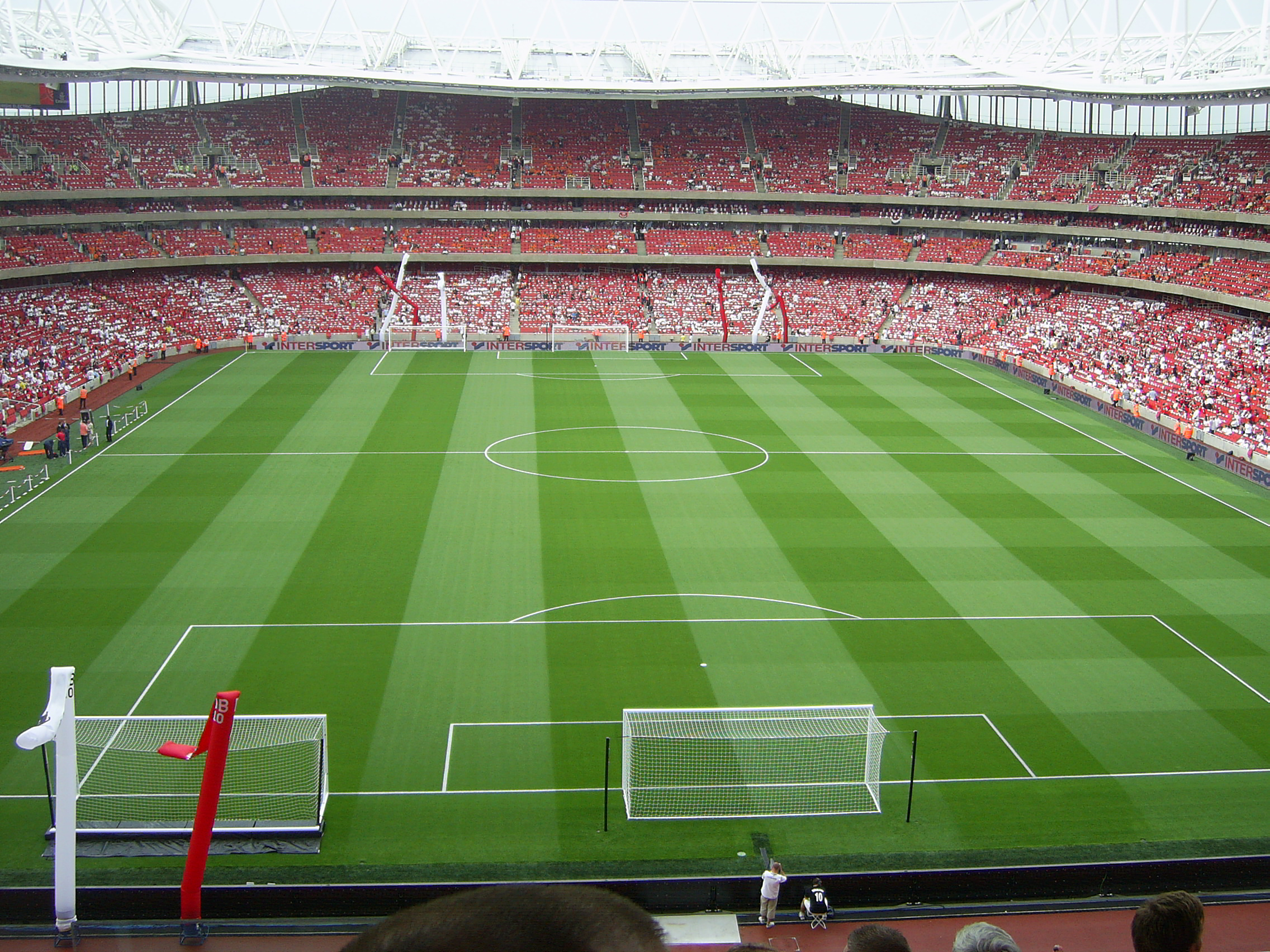 Photo taken, by user of the inside of the stadium before Dennis Bergkamp's testimonial match.